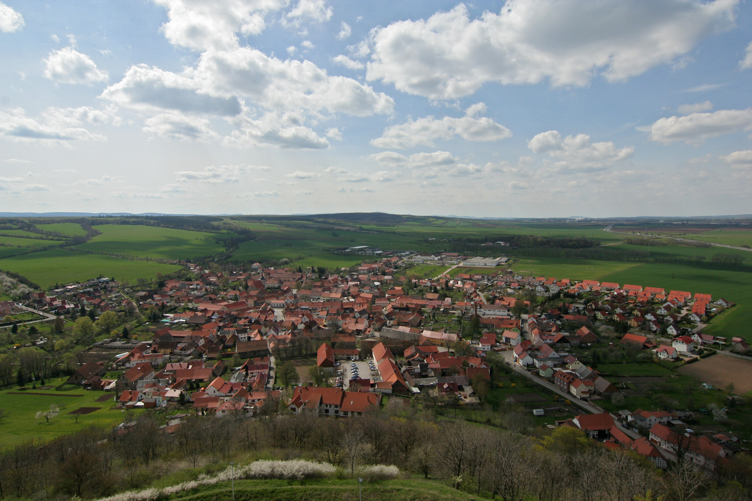 Mühlberg, a village in Thuringia, Germany